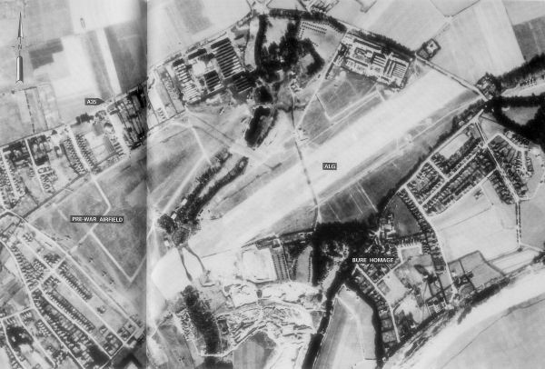 Aerial photograph of Christchurch Airfield, England.